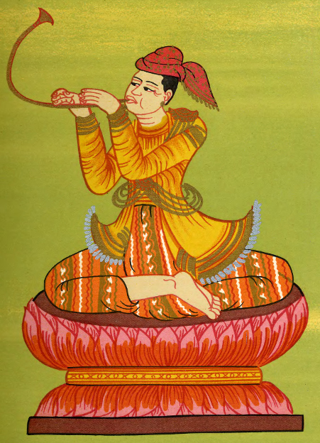 Maung Minbyu nat (spirit), th in the official pantheon of Burmese nats